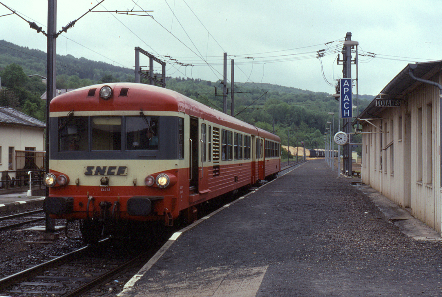 X 4778 with X 8778 behind pauses at the border station of Apach on 10 June 1991 whilst working train E1955, 07:29 Thionville to Trier Hbf.